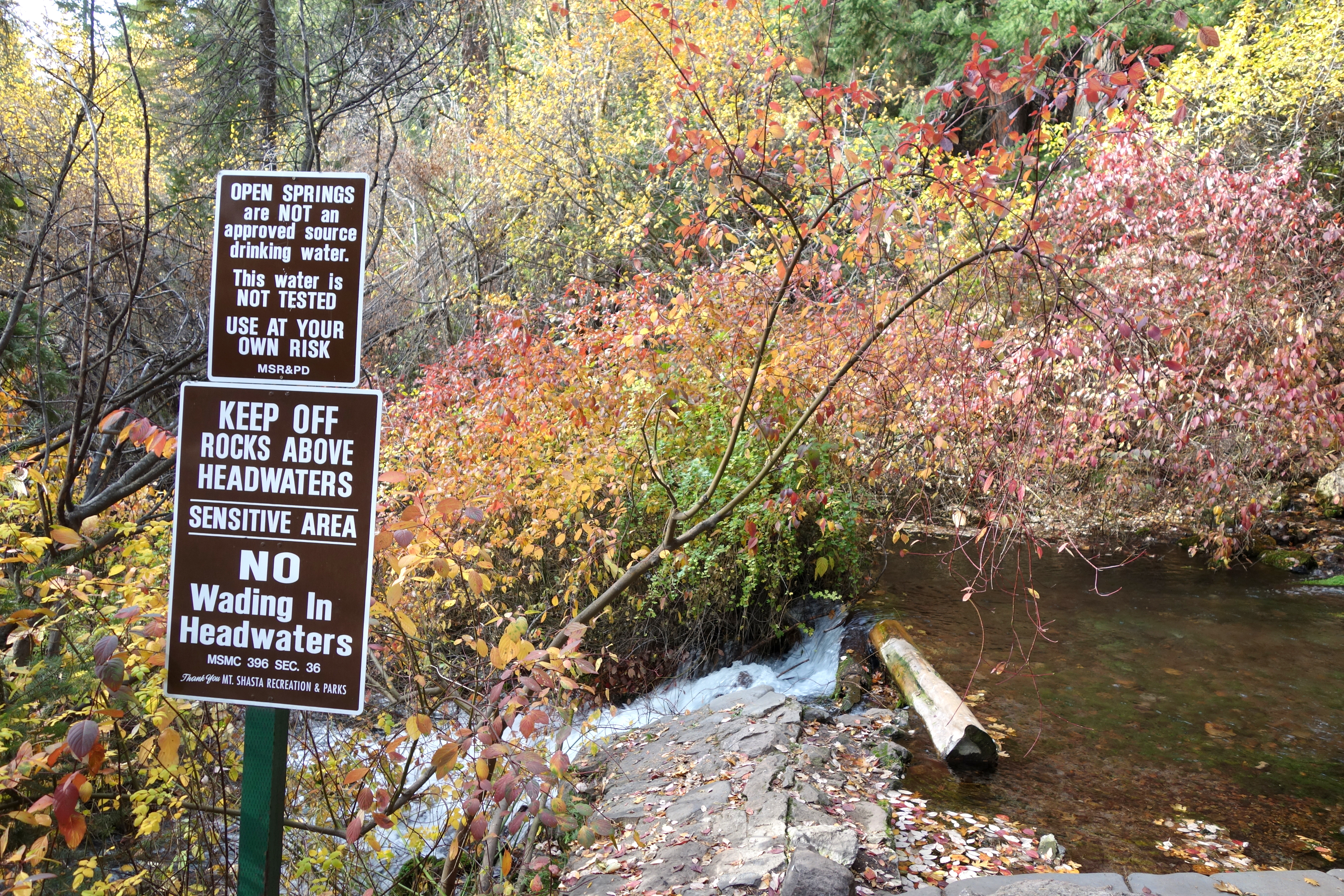 Mount Shasta Big Springs in Mount Shasta City Park - Mount Shasta City, California, USA.